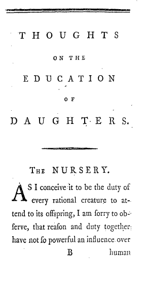 First page of Mary Wollstonecraft, Thoughts on the Education of Daughters, London: Printed by J. Johnson, 1787.